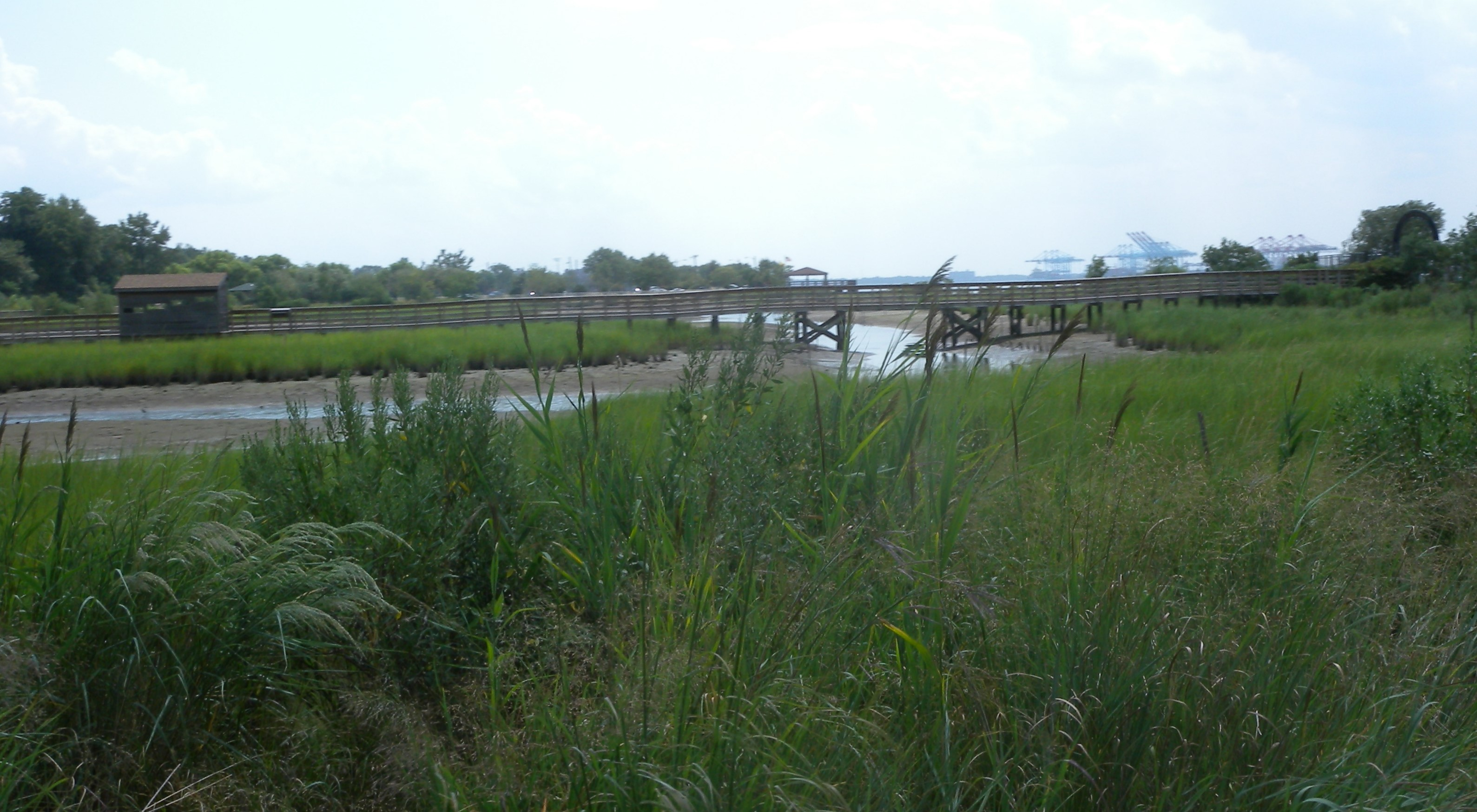 Looking south in Richard A. Rutkowski Park at a Riverfront Walk bridge on a partly cloud midday.